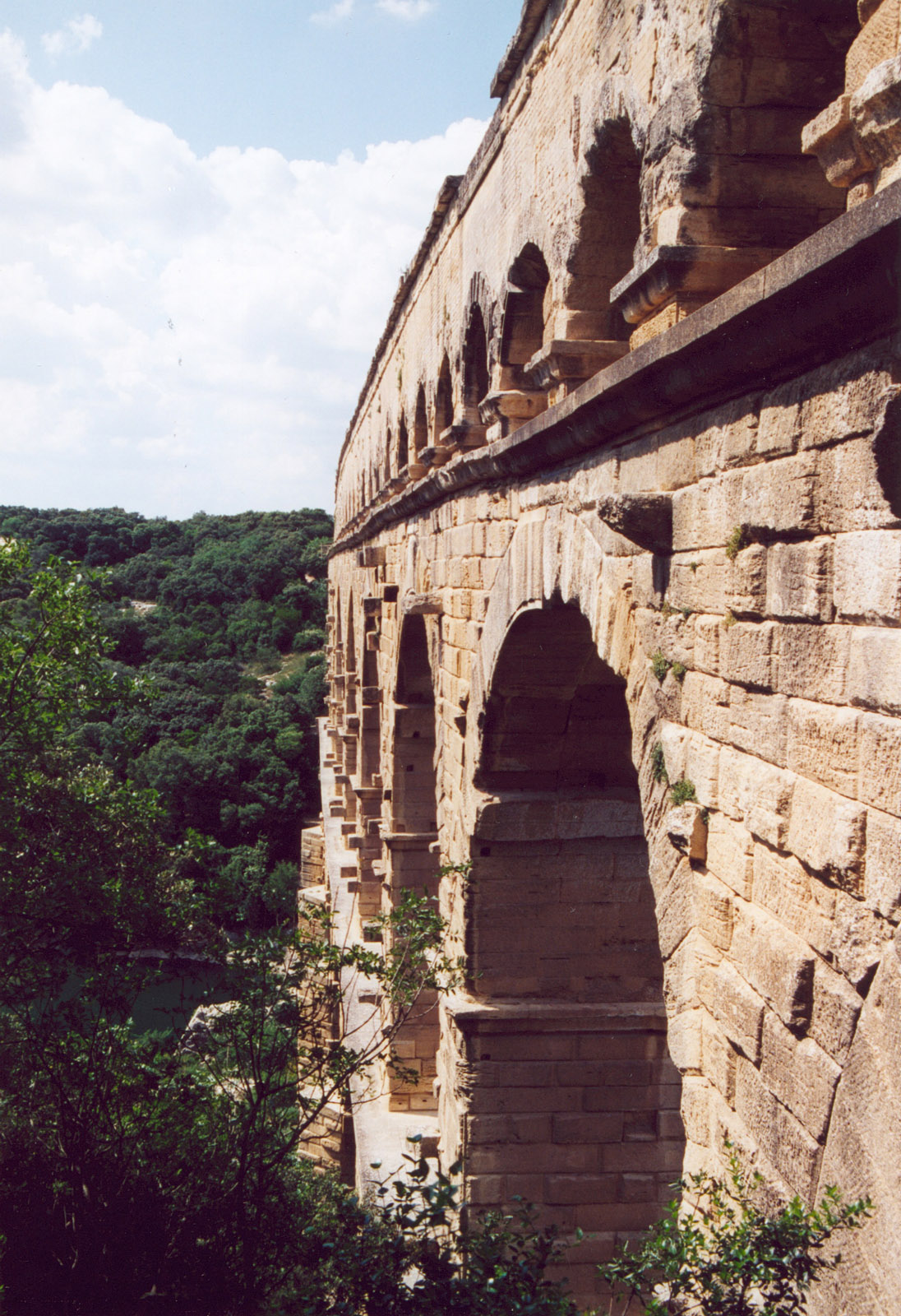 View of (Pont du Gard).